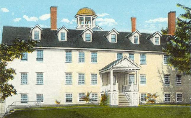 Main Dwelling, built 1793, Canterbury Shaker Village, East Canterbury, NH; from a c. 1920 postcard.